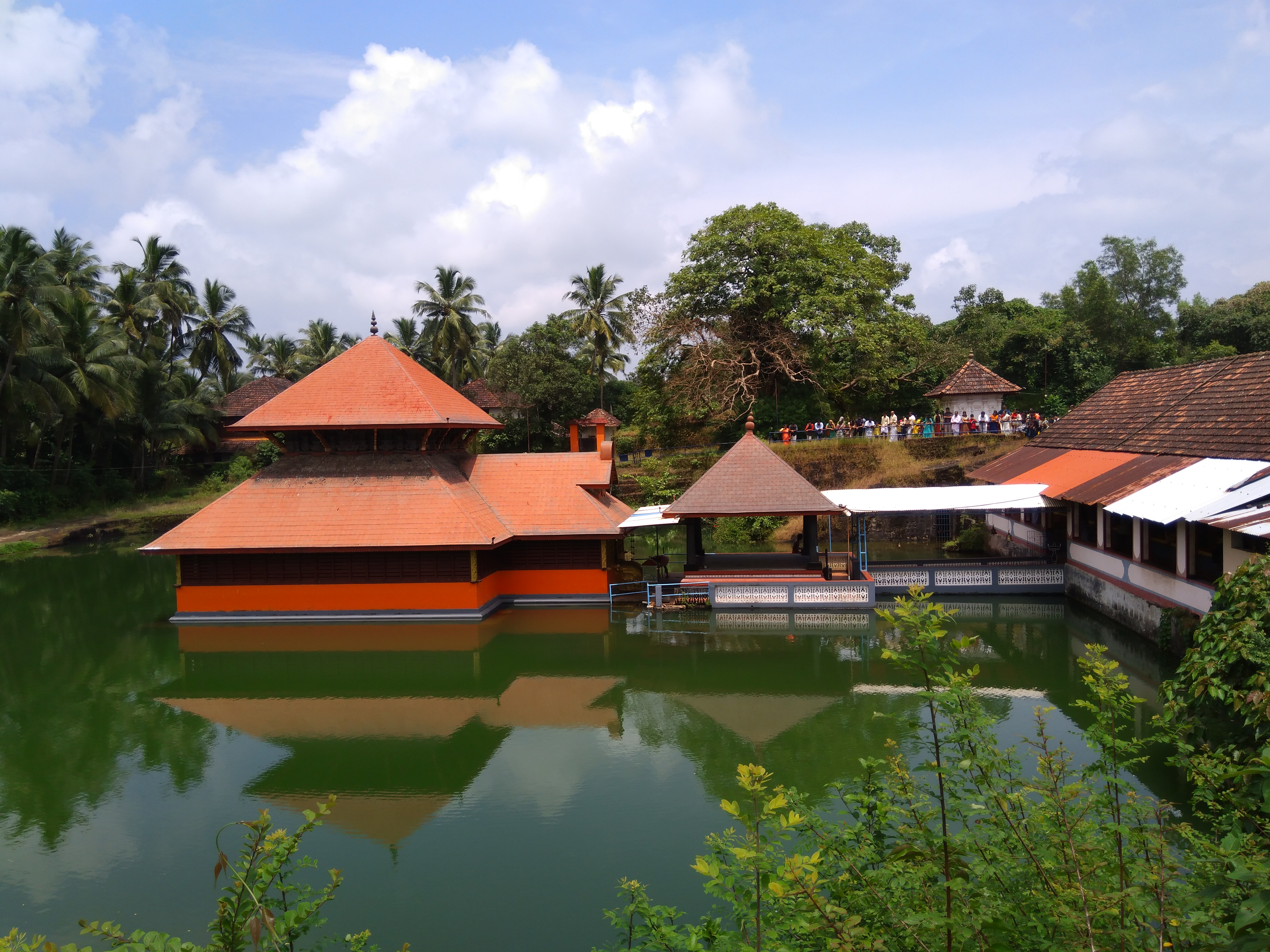 Lake temple Anantapura is located in Kasaragodu district of Kerala